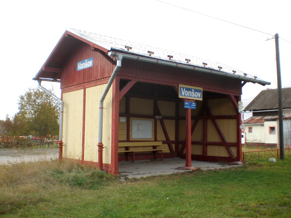 Vonšov (Skalná), Cheb district, Czech Republic; train station